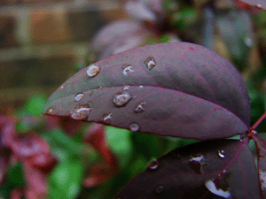 Illustration at 8 bits